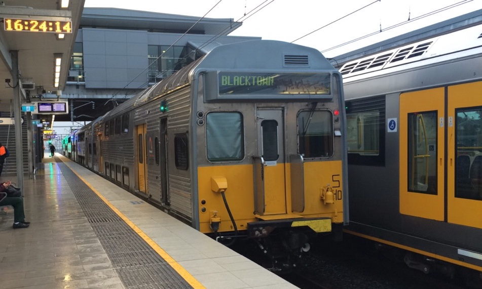 A Sydney Trains S-set train headed for Blacktown railway station departs Platform 2 at Glenfield during peak hour.